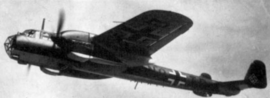 A German Dornier Do 215B bomber in flight. The Do 215 was a Do 17Z with liquid cooled DB 601 engines which was mainly used for reconnaissance.